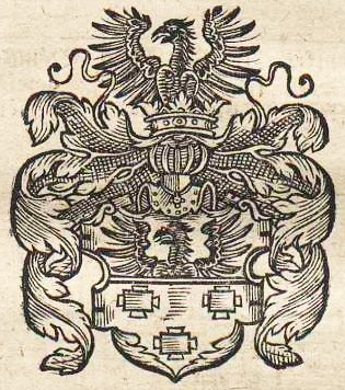 Sulima coat of arms by Bartosz Paprocki